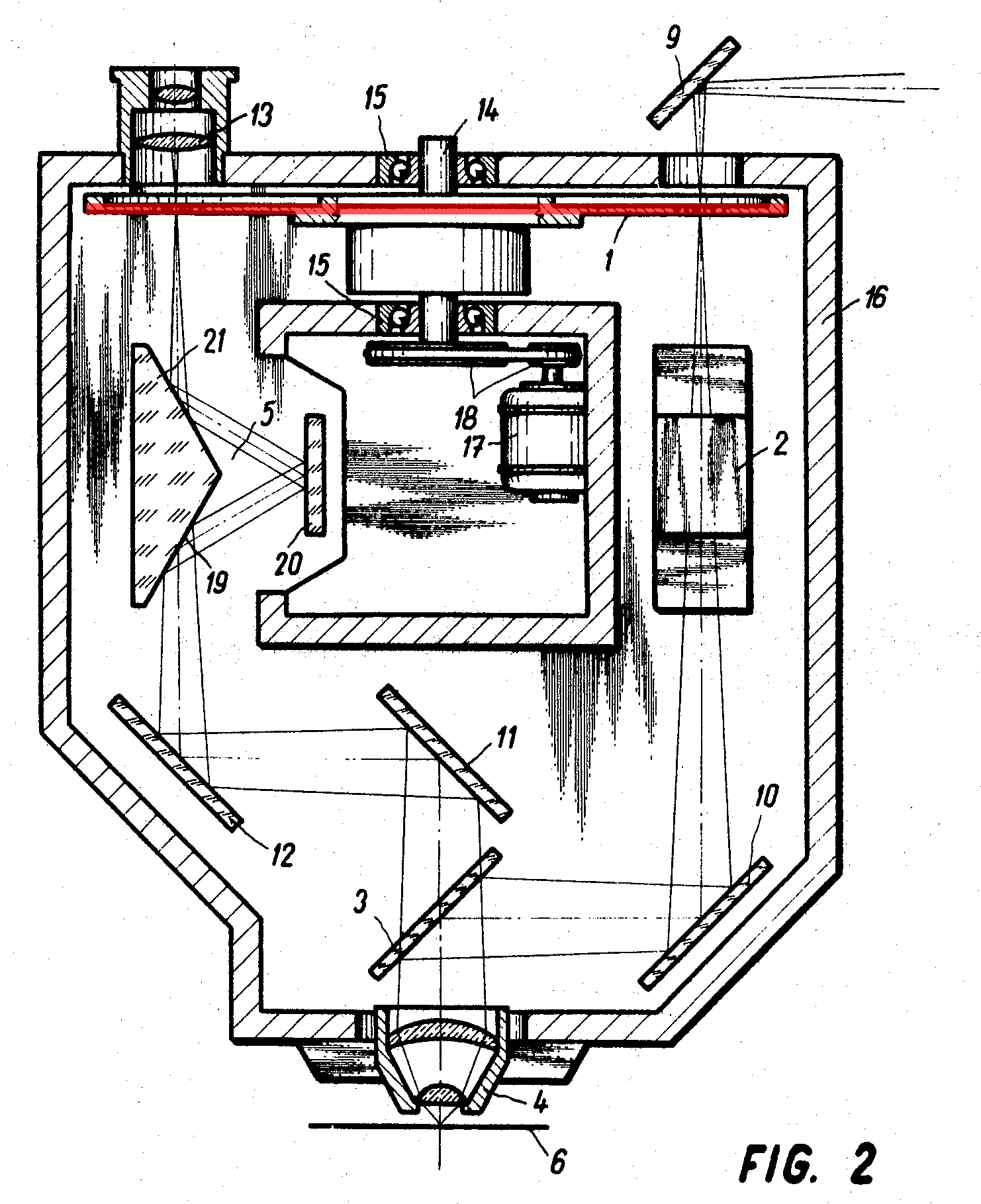 Part of Page 2 from US Patent 3517980 filed in 1967, granted 1970-06-30. Red bar added to indicate the Nipkow-Disk.